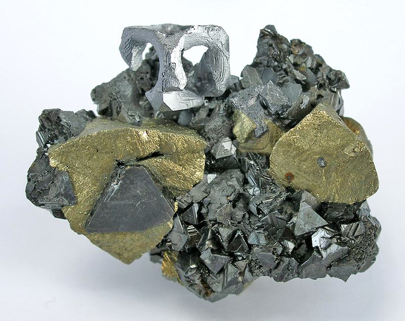 Chalcopyrite, Galena, Sphalerite Locality: 19th of September Mine, Madan, Rhodope Mtns., Bulgaria Size: miniature, 3.8 x 2.9 x 1.3 cm Galena (skeletal) with Chalcopyrite on Sphalerite A sharp 9mm cube, hoppered throughout, perched on chalcopyrite. As my friend John Veevaert found out and reported in his show report elsewhere, "it was mentioned to me that these were actually found about 20 years ago and ignored until someone in Bulgaria figured out how to remove the encasing clay without damaging the delicate features of these remarkable specimens. They are just absolutely incredible and easily the most impressive new thing here at the show."